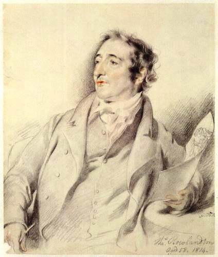 Pencil sketch portrait of Thomas Rowlandson by George Henry Harlow (d. 1819), currently in the National Portrait Gallery, London.